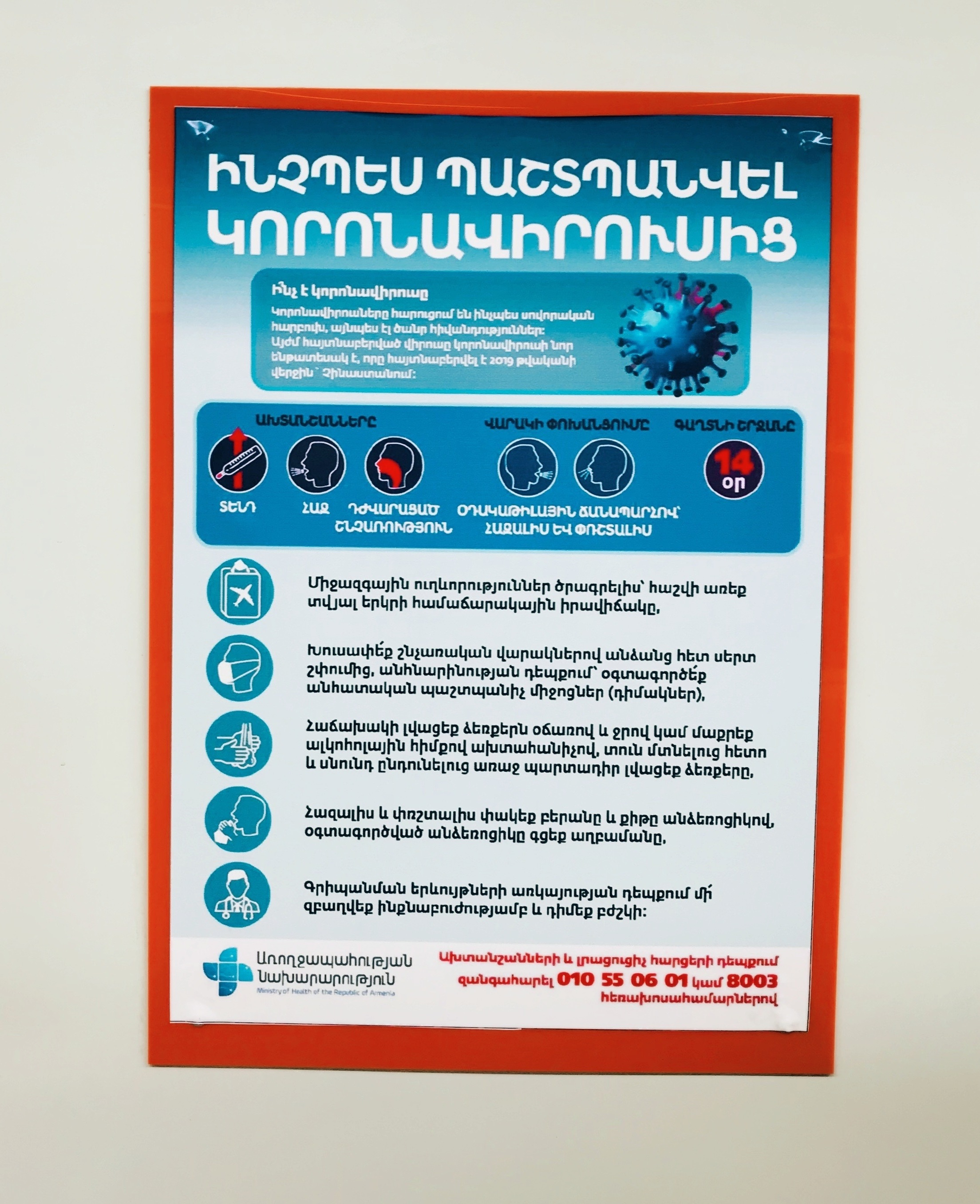 Guidelines for protection against coronavirus in the Yerevan Metro. 24 August 2020.